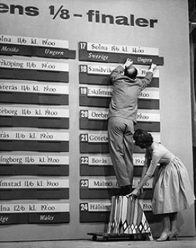 Stockholm 2 february 1958. Gunnar Gren receives help från the TV-hostess Agneta Ljungström putting together the play order FIFA World Cup. The drawing was held in the tv show Stora famnen.